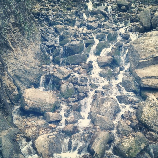 A twin in mazandaran-iran